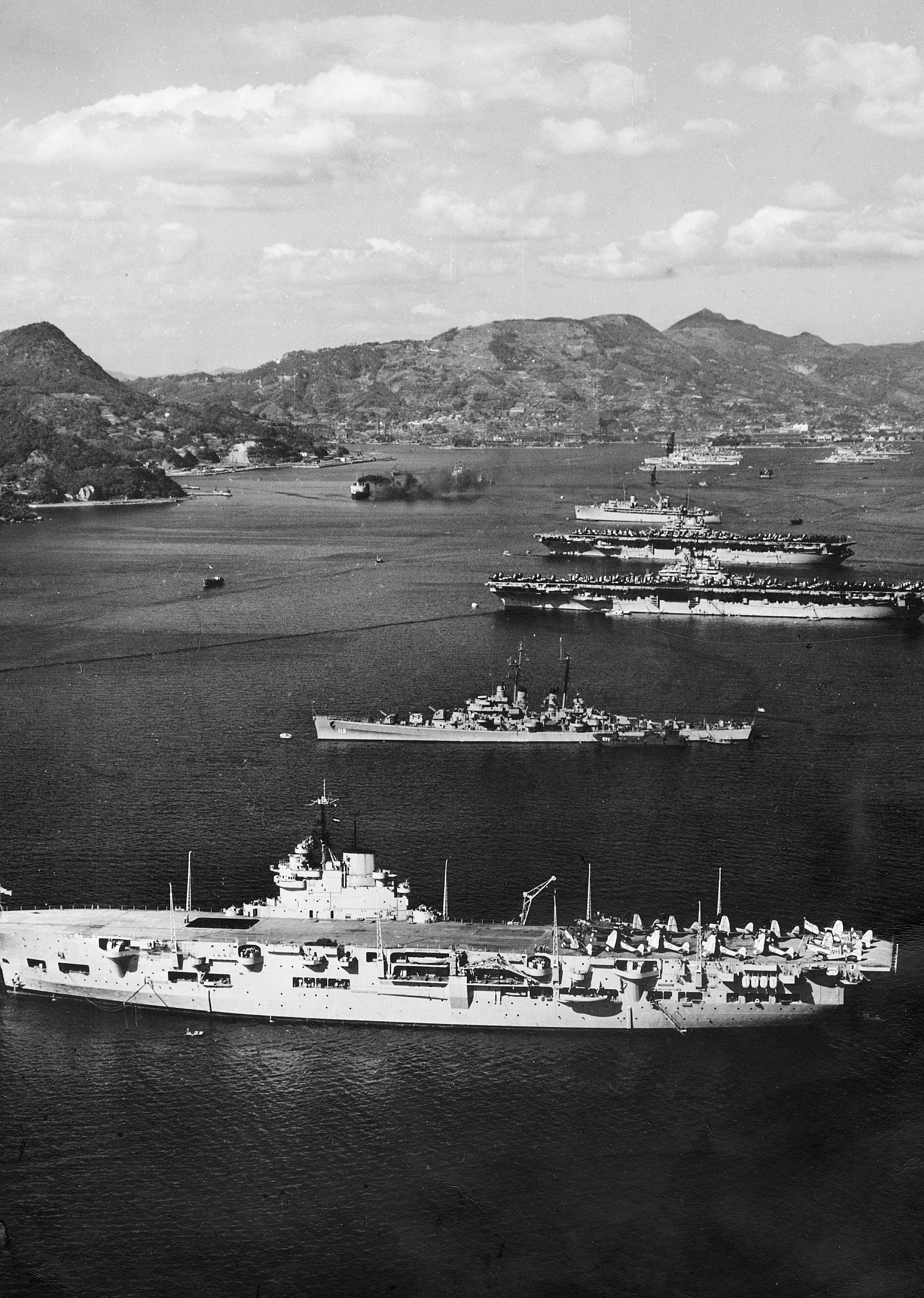 United Nations ships assigned to support military operations in Korea pictured at anchor in Sasebo, Japan, during a break in the action. Pictured from front to back HMS Unicorn (I72), USS Juneau (CLAA-119), USS Valley Forge (CV-45), USS Leyte (CV-32), USS Hector (AR-7), and USS Jason (ARH-1). The photo was taken in late 1950 or early 1951, as this was the only time that Leyte operated off Korea.